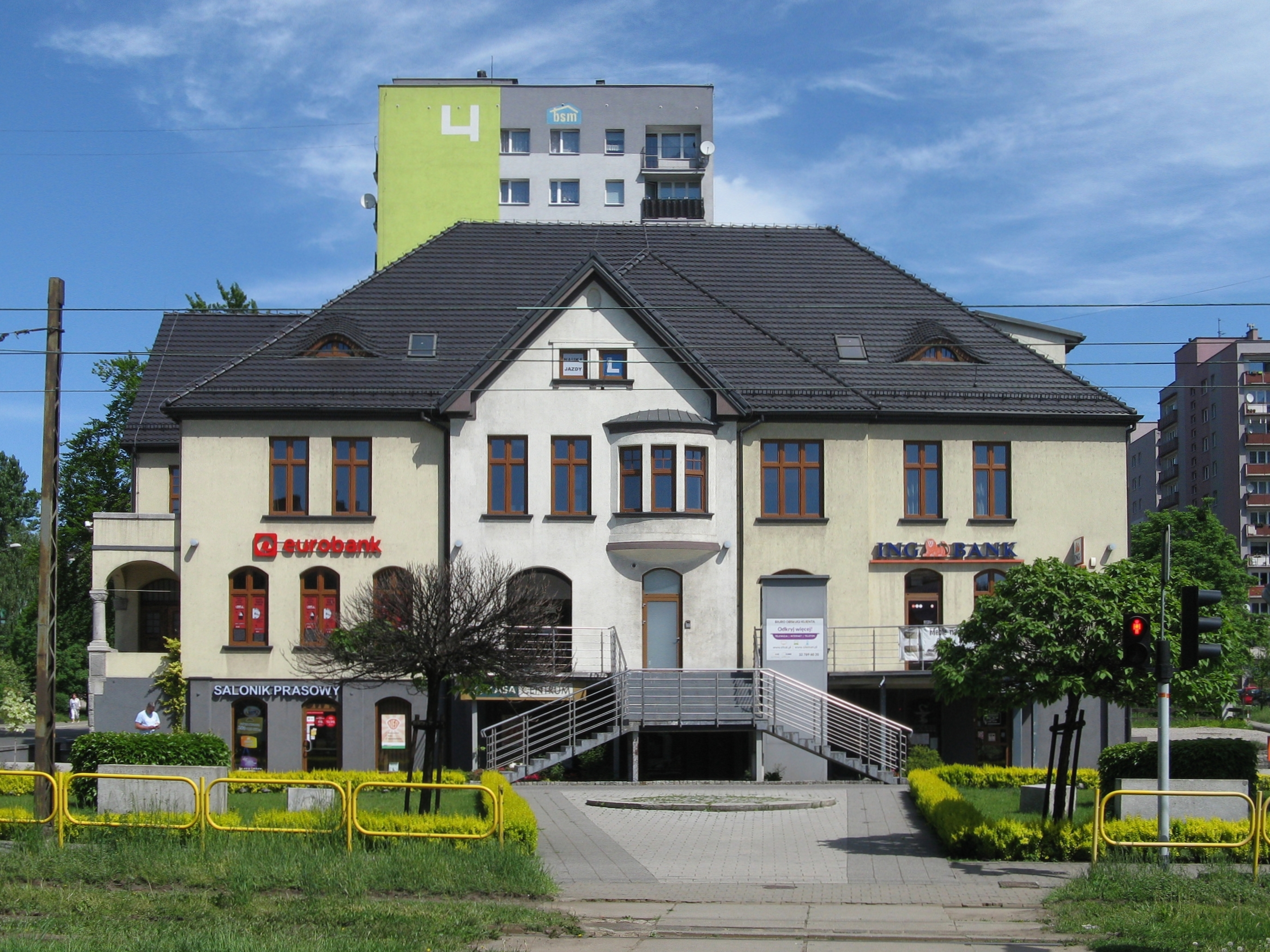 The former Szombierki town hall in Bytom-Szombierki, Poland.